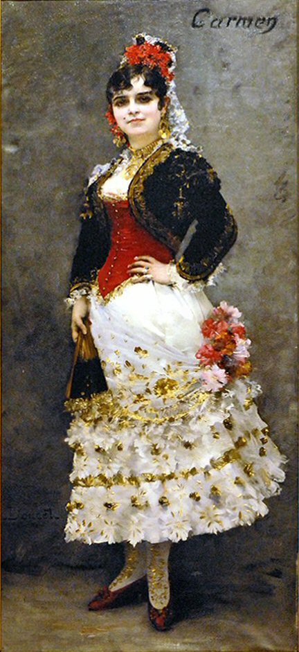 Celestine Galli-Marié (1840–1905), the mezzosoprano who created the role of Carmen